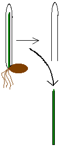 Schematic view of the wheat coleoptile